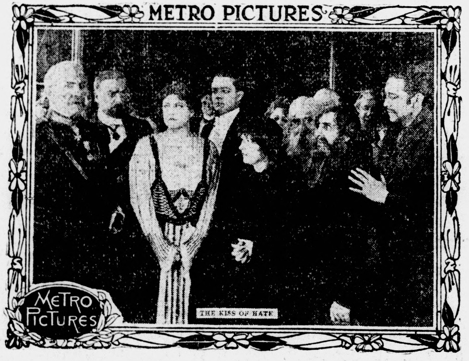 Publicity image for "The Kiss of Hate"